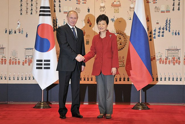 Seoul, President Vladimir Putin with President of South Korea Park Geun-hye